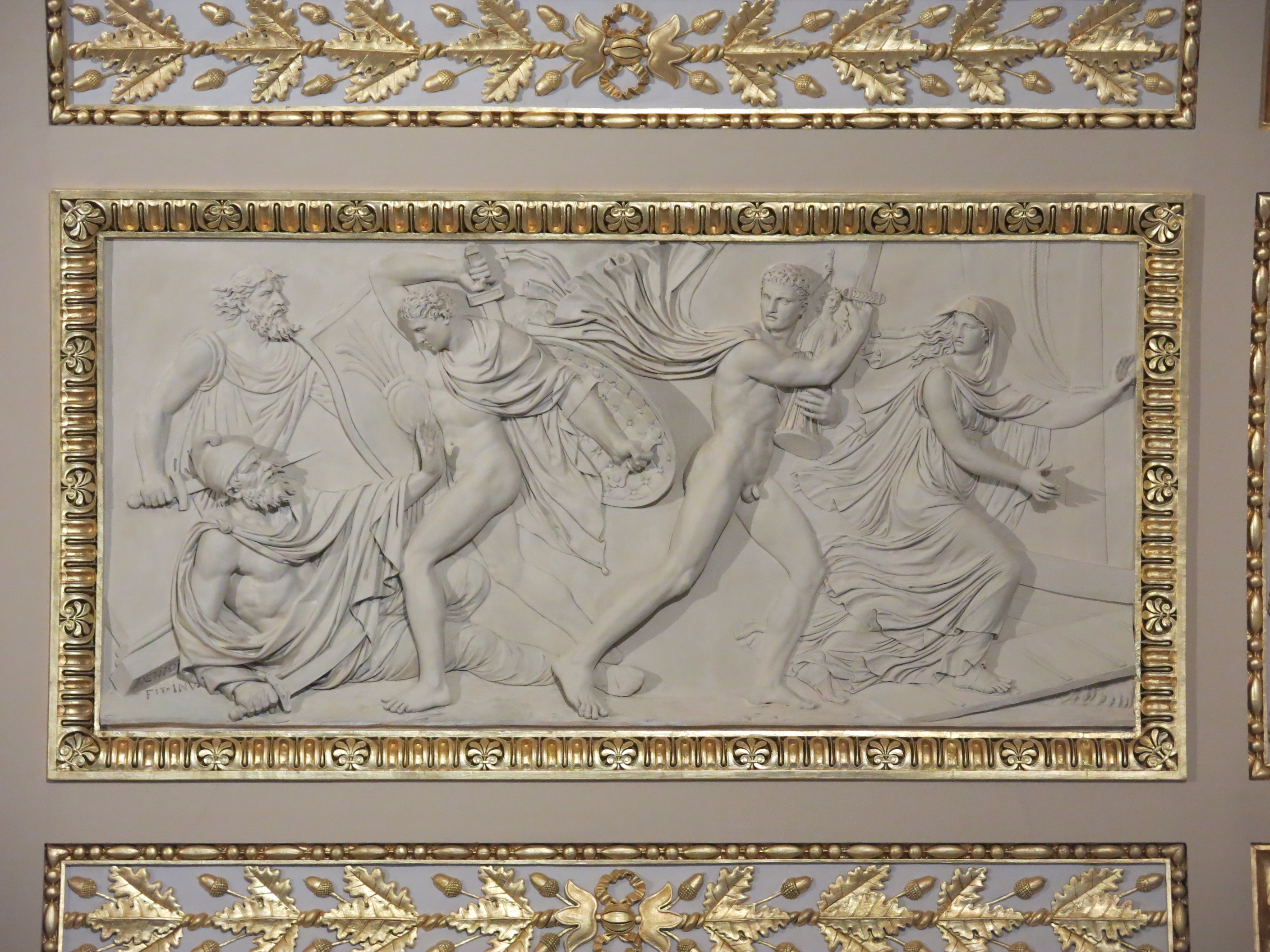 Diana room - Orestes and Iphigéneia stealing the statue of Diana Taurique. Louvre museum (Paris, France).